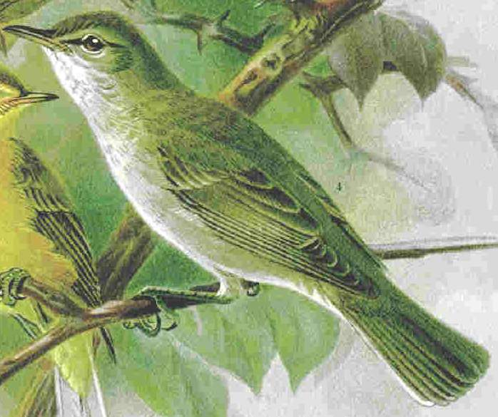 Hypolais olivetorum